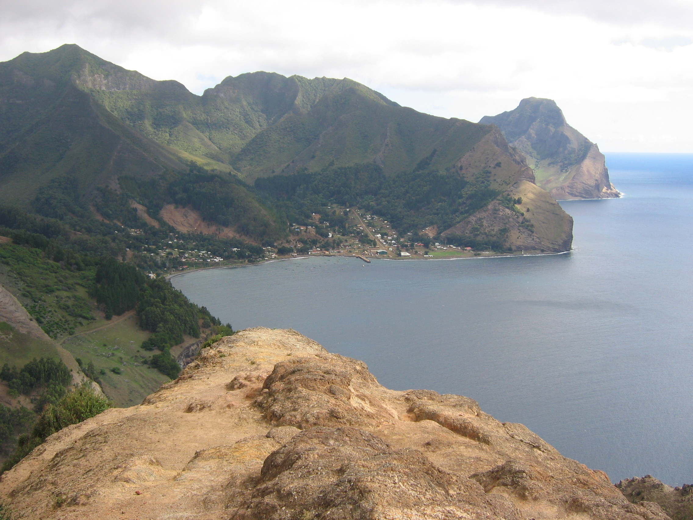 View of Robinson Crusoe Island - coast and mountains, in the Archipielago Juan Fernandez, Chile.